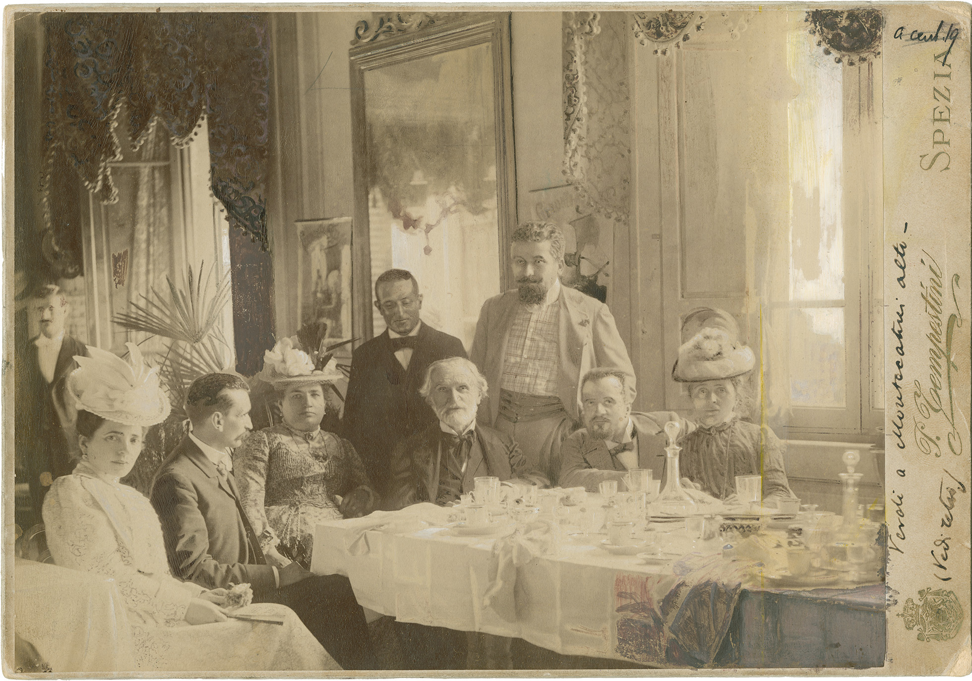 Portrait of Giuseppina Pasqua, Teresa Stolz, Giuseppe Verdi, Leopoldo Mugnone. Photo by Pietro Tempestini, Montecatini Terme, 1899.